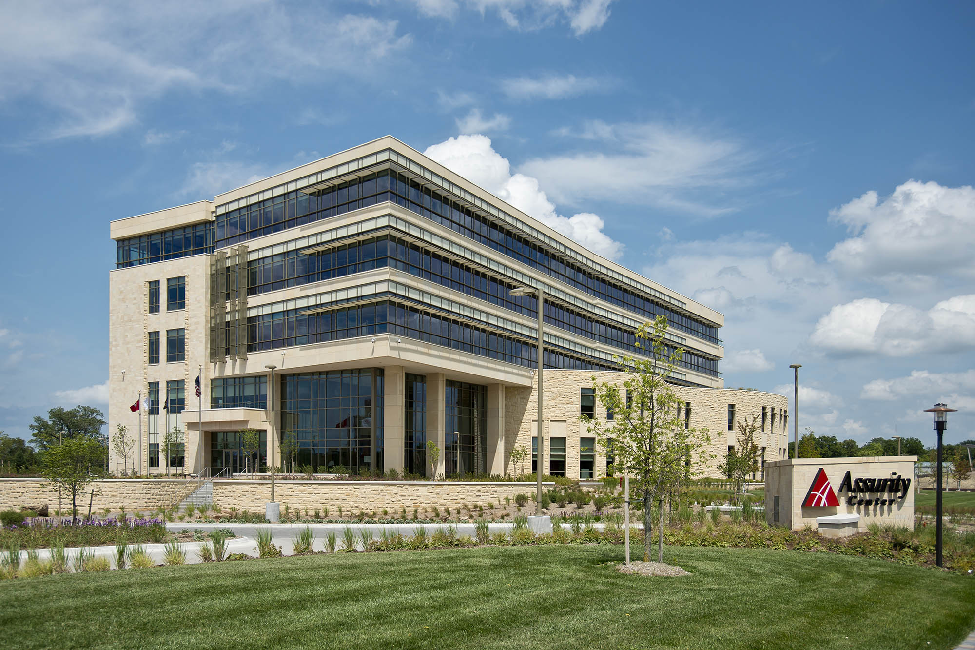 Assurity Center